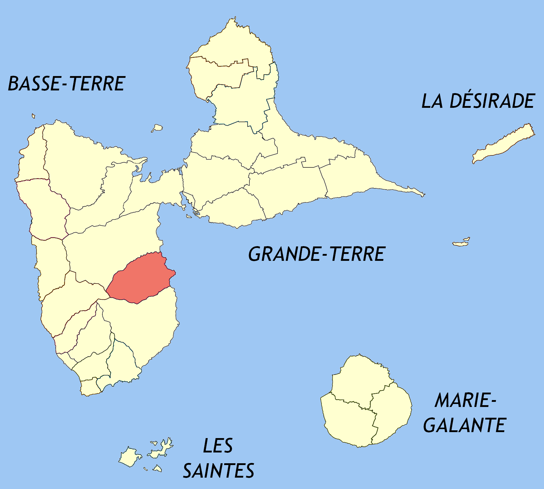 Created map myself.